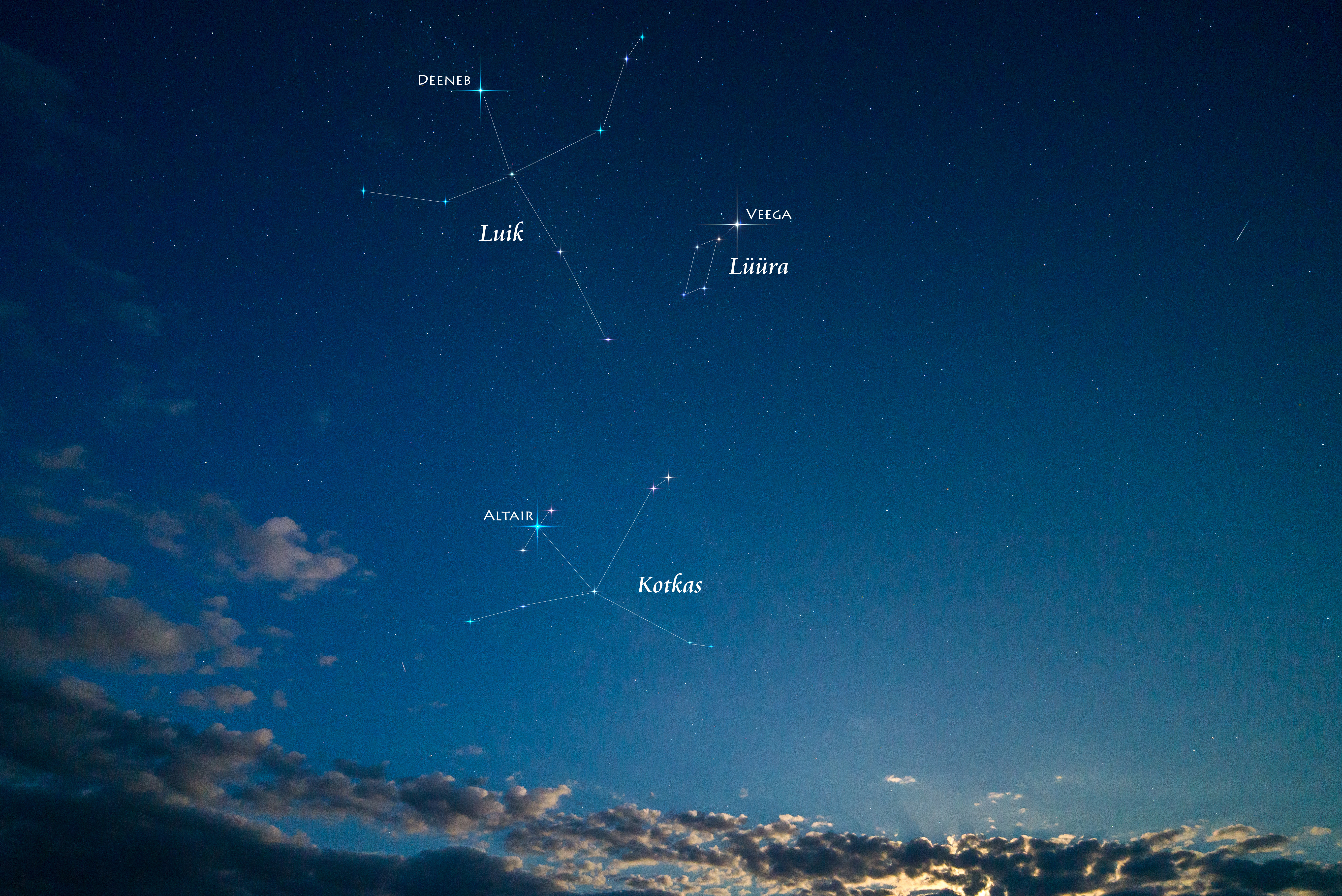 Summer triangle with the stars Altair, Deneb, and Vega, in the constellations of Aquila, Cygnus, and Lyra. Photographed on a moonlit summer night in Estonia